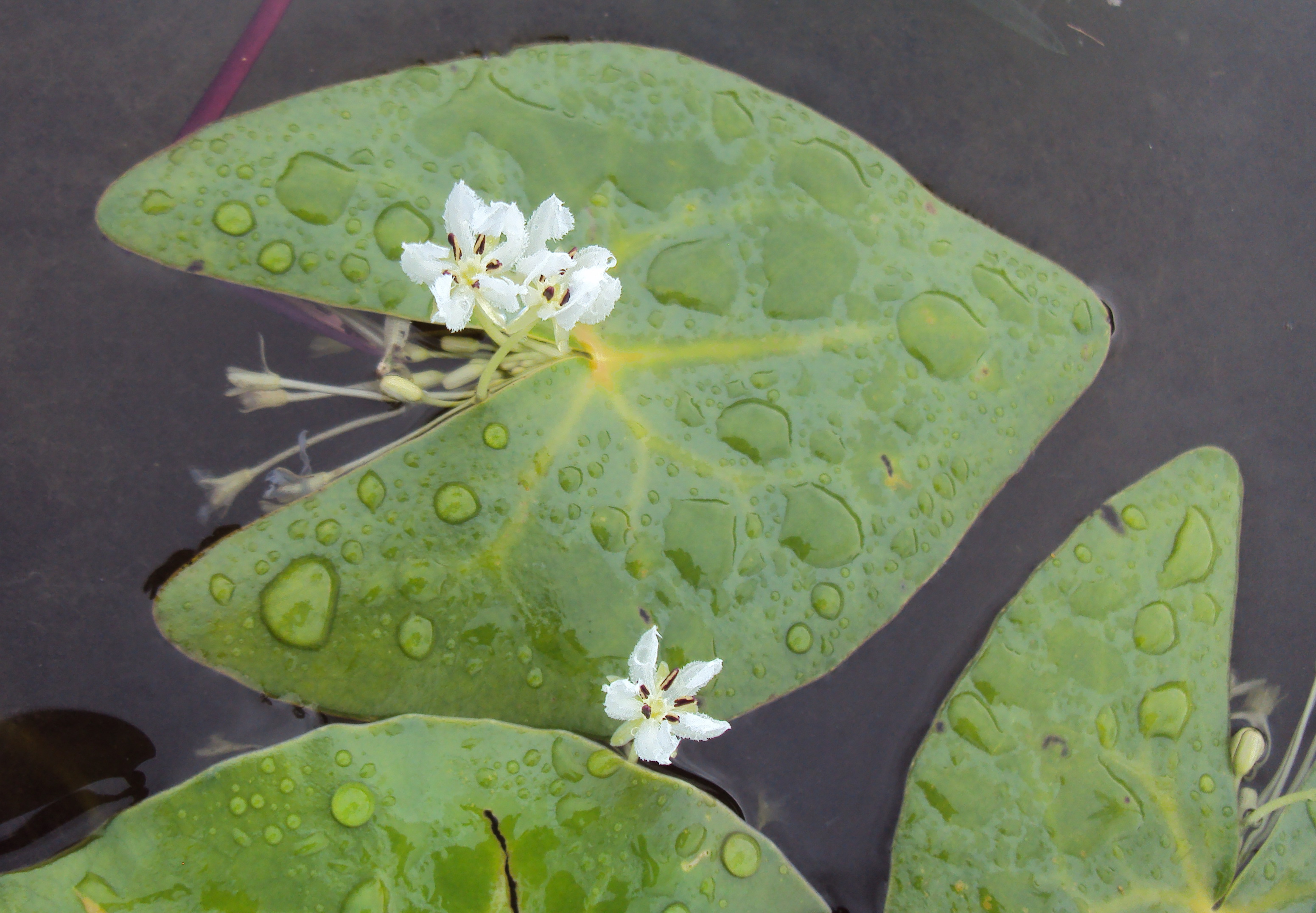 Nymphoides krishnakesara